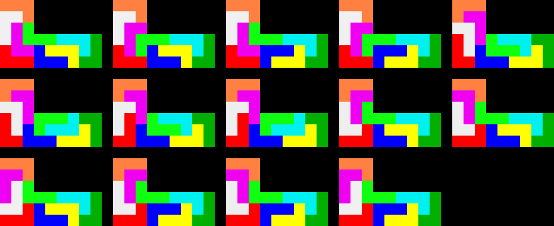 Different rep-tilings of the L-tetromino, a geometrical shape created by joining four squares.